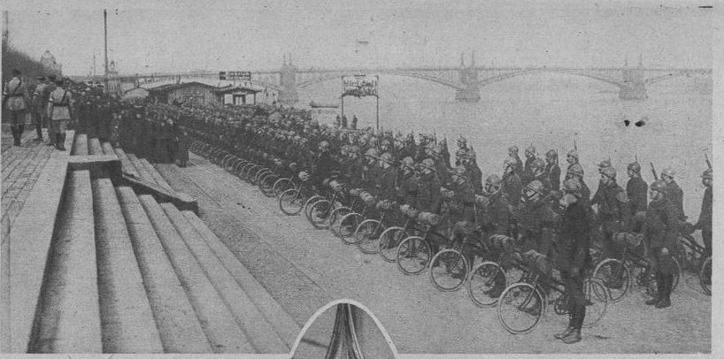 The Colonial Infantry Regiment of Morocco during the hand over with his 10th citation of the croix de guerre 1914-1918 with palms, in Mainz. One side of the square is made up of cyclists.